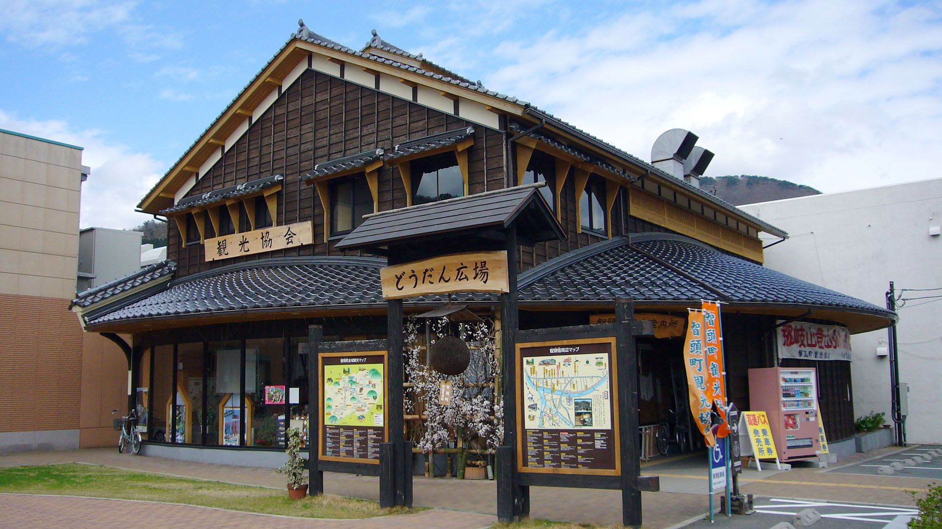 Tourist Information Center of Chidu in Chidu-cho, Tottori prefecture, Japan